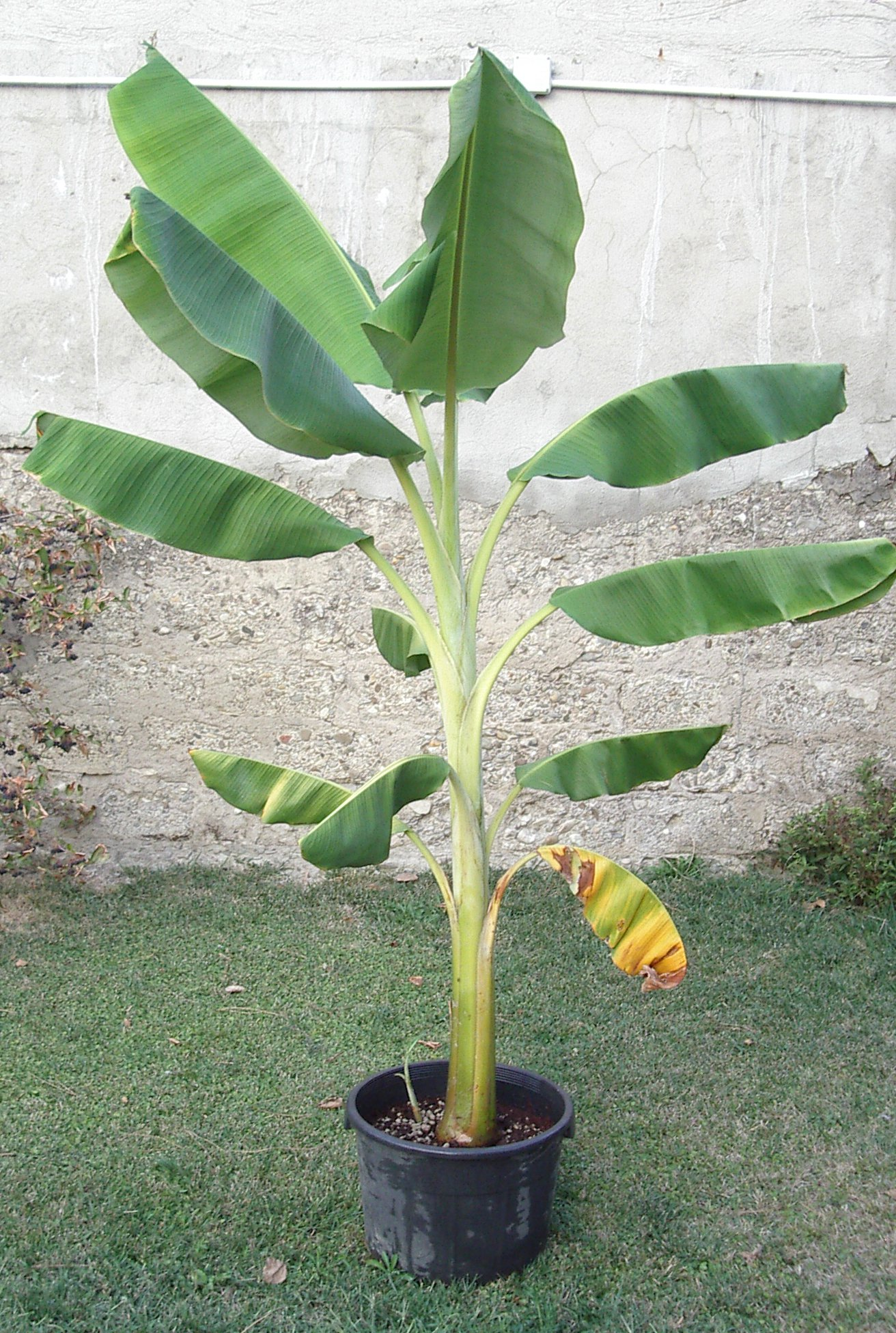 Musa Dwarf Orinoco, potted, pseudoste height 130 cm.